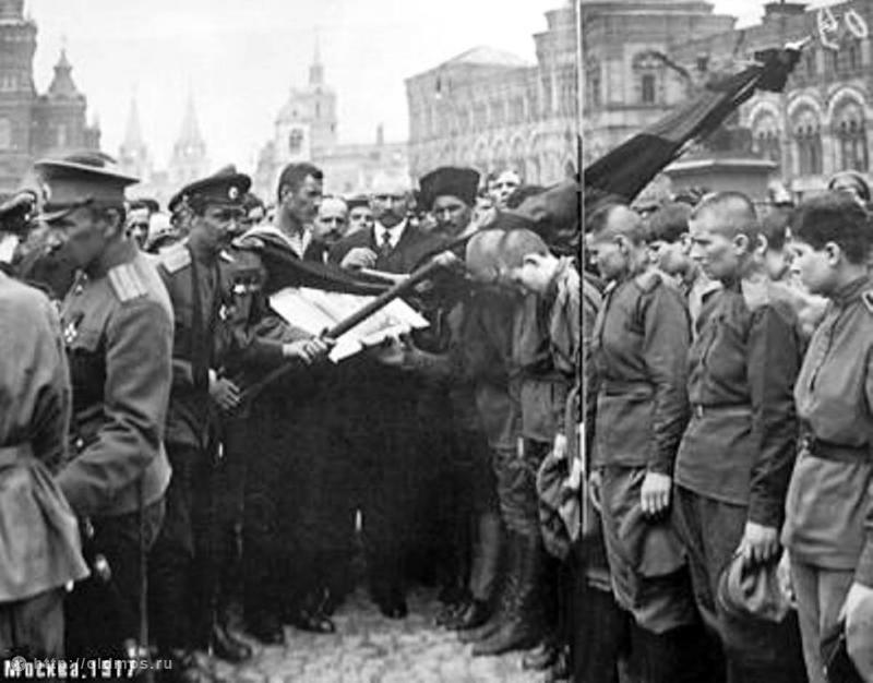 Women's Death Battalion